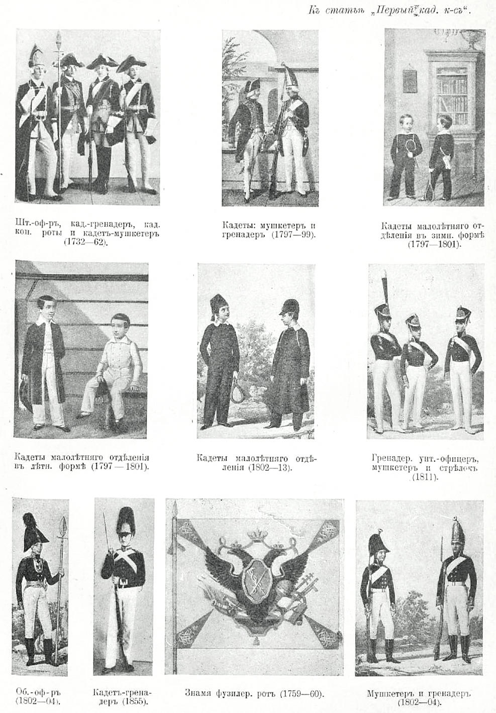 First Cadet Corps